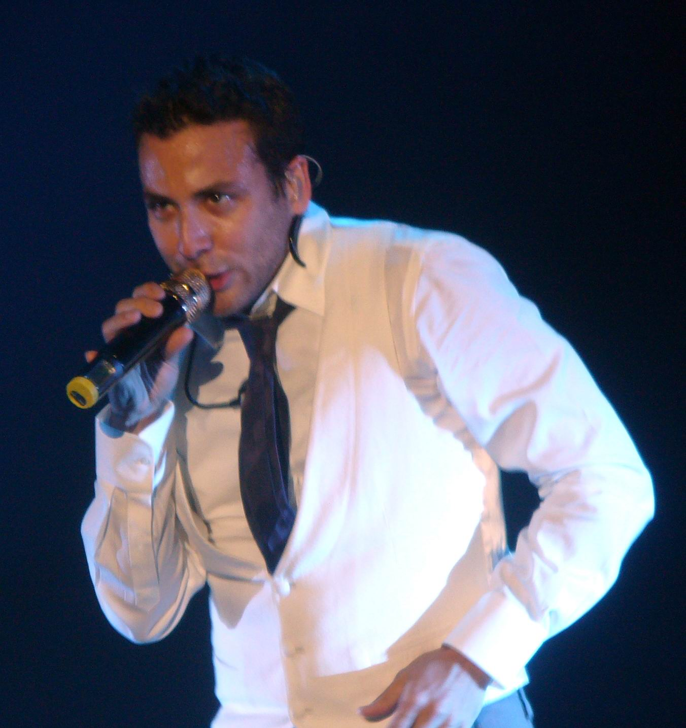 Howie Dorough singing at the Backstreet Boys' concert in Stocknolm, Sweden, 14 April 2008. The Unbreakable Tour.